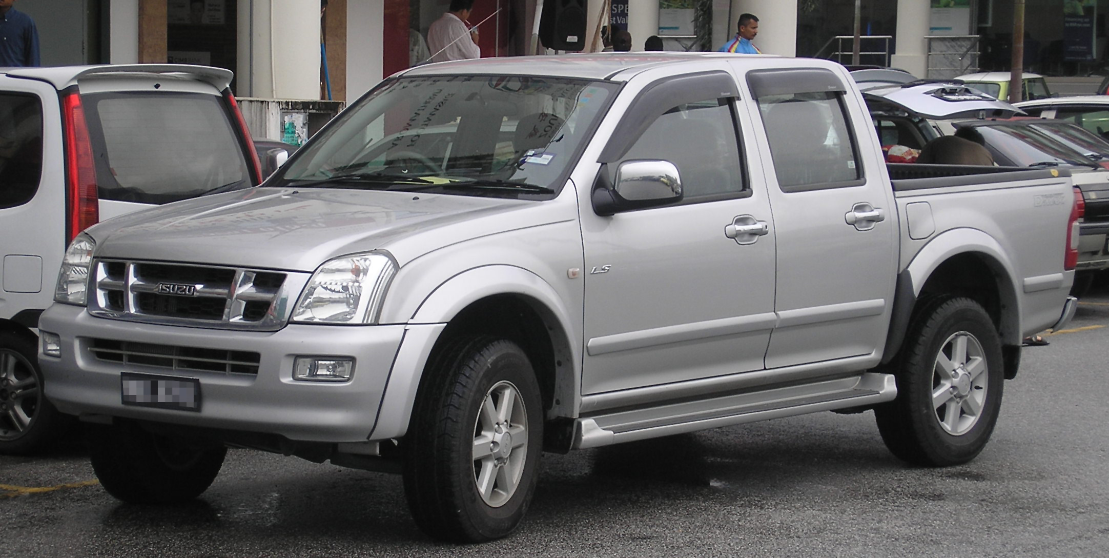 Front-side shot of a Isuzu D-Max (first generation), in Serdang, Selangor, Malaysia.